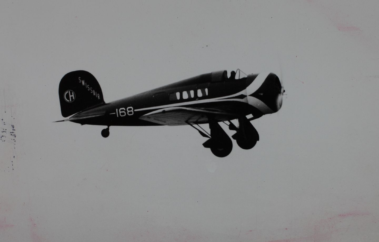 A Lockheed Model 9 "Orion" undergoes test flying before delivery to Swissair.